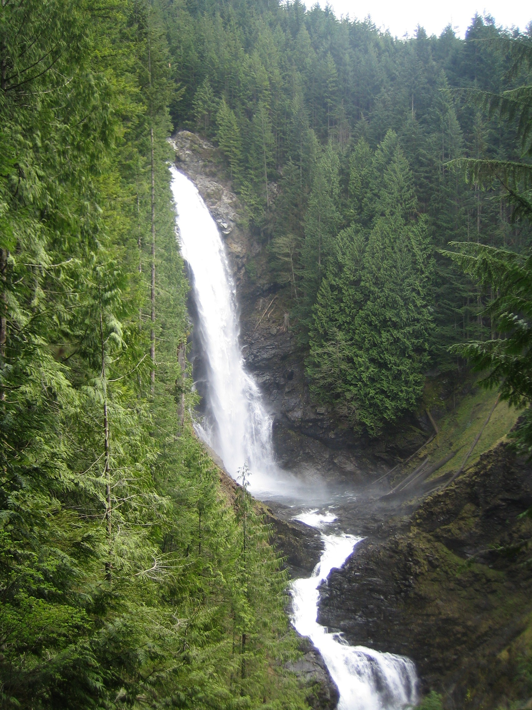 Photo of the middle of three falls in Wallace Falls Park.